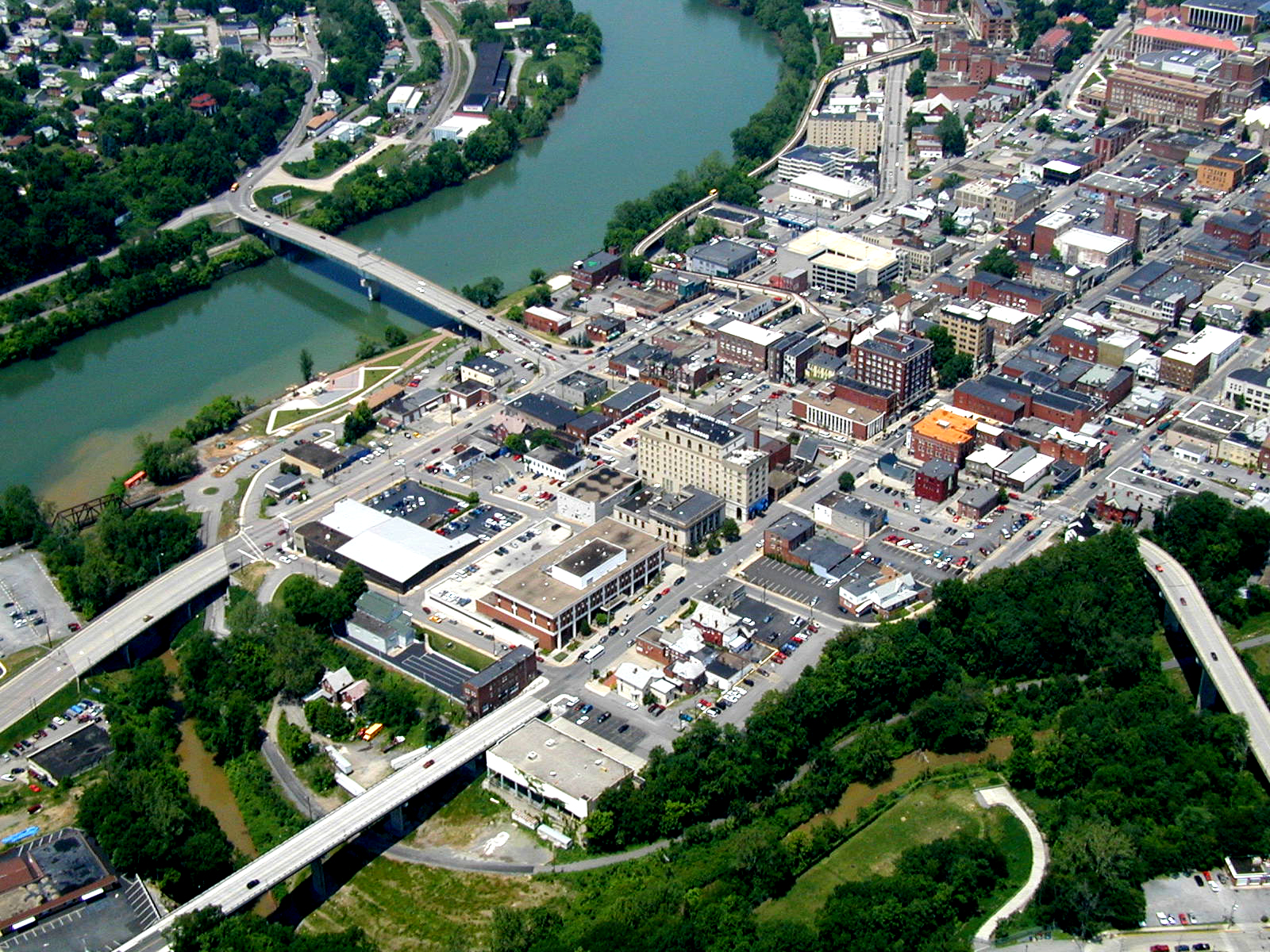 Aerial photo of downtown Morgantown, West Virginia